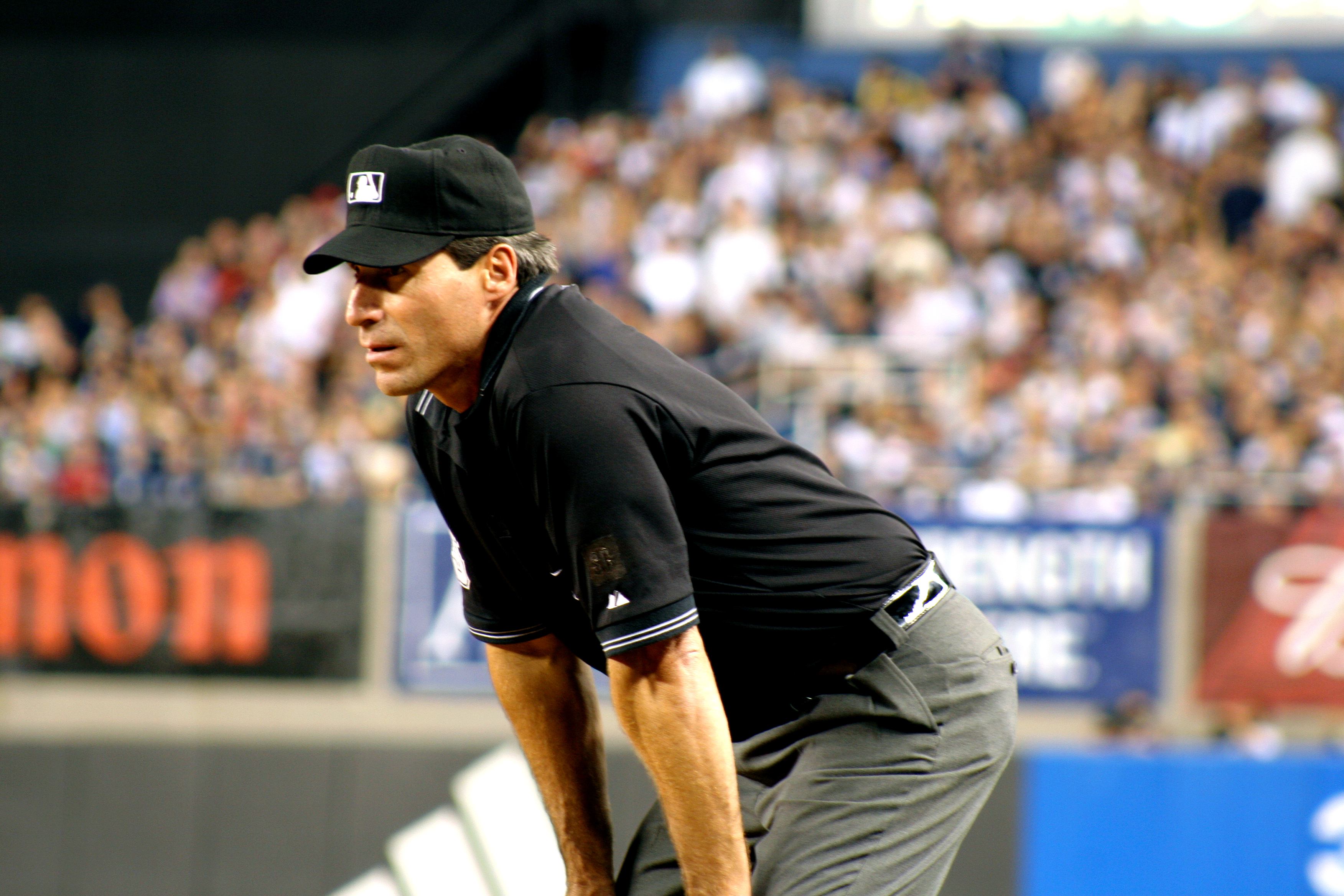 Major League Baseball umpire Angel Hernandez